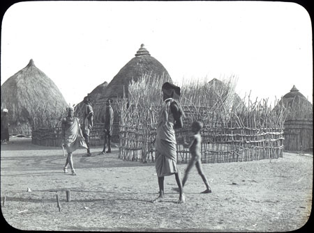 A Shilluk town in 1910 (South Sudan).